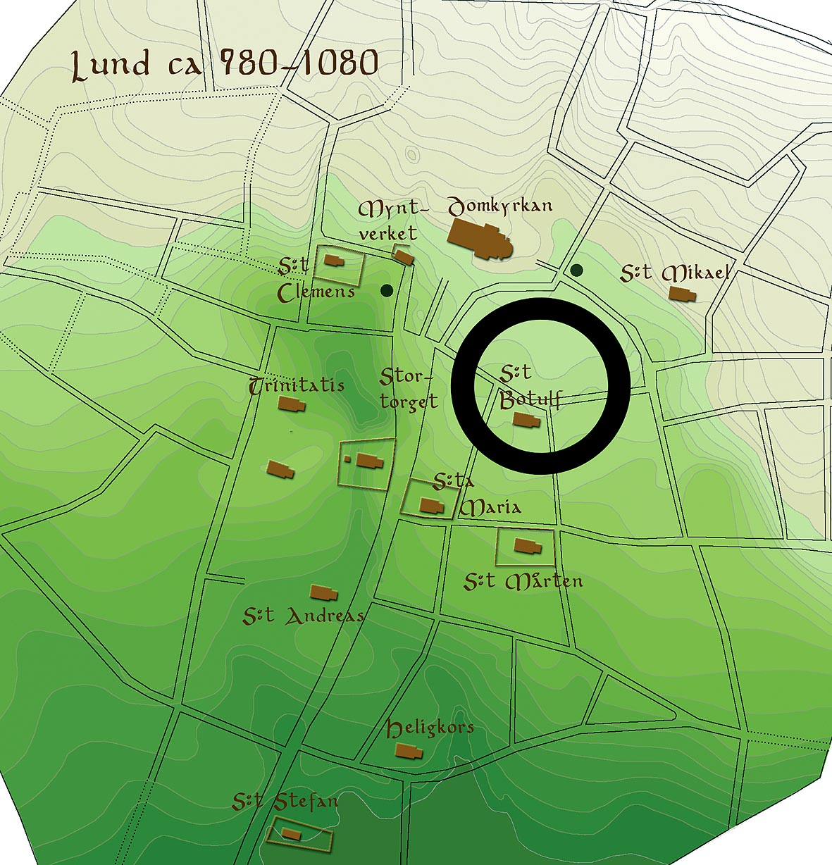 Map of the town Lund in Skania, Sweden in the Viking period. Reconstruction: Sven Rosborn 2004.